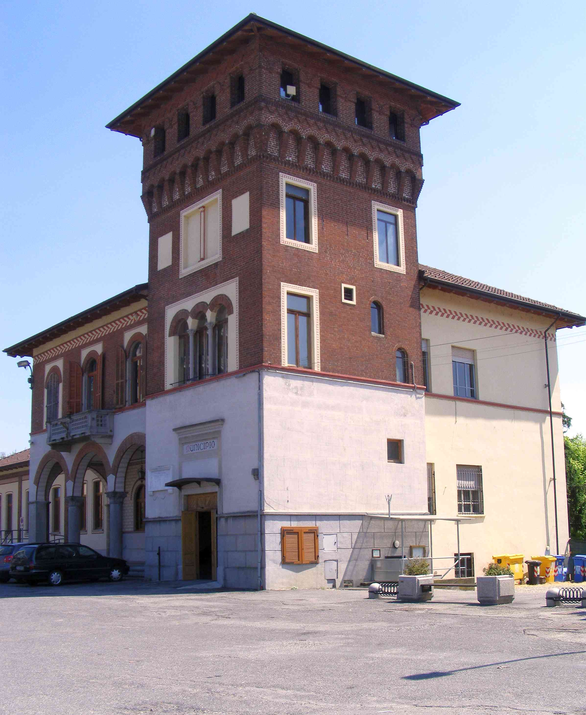 Torrazza Piemonte (TO, Italy): town hall